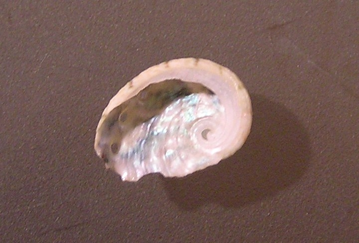 Haliotis unilateralis J. B. Lamarck, 1822, an abalone from the family Haliotidae; Israel